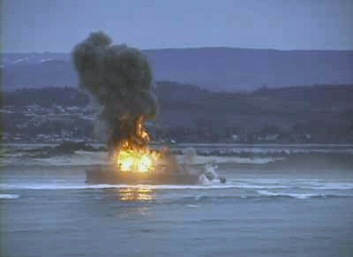 New Carissa on fire, cropped NOAA image (